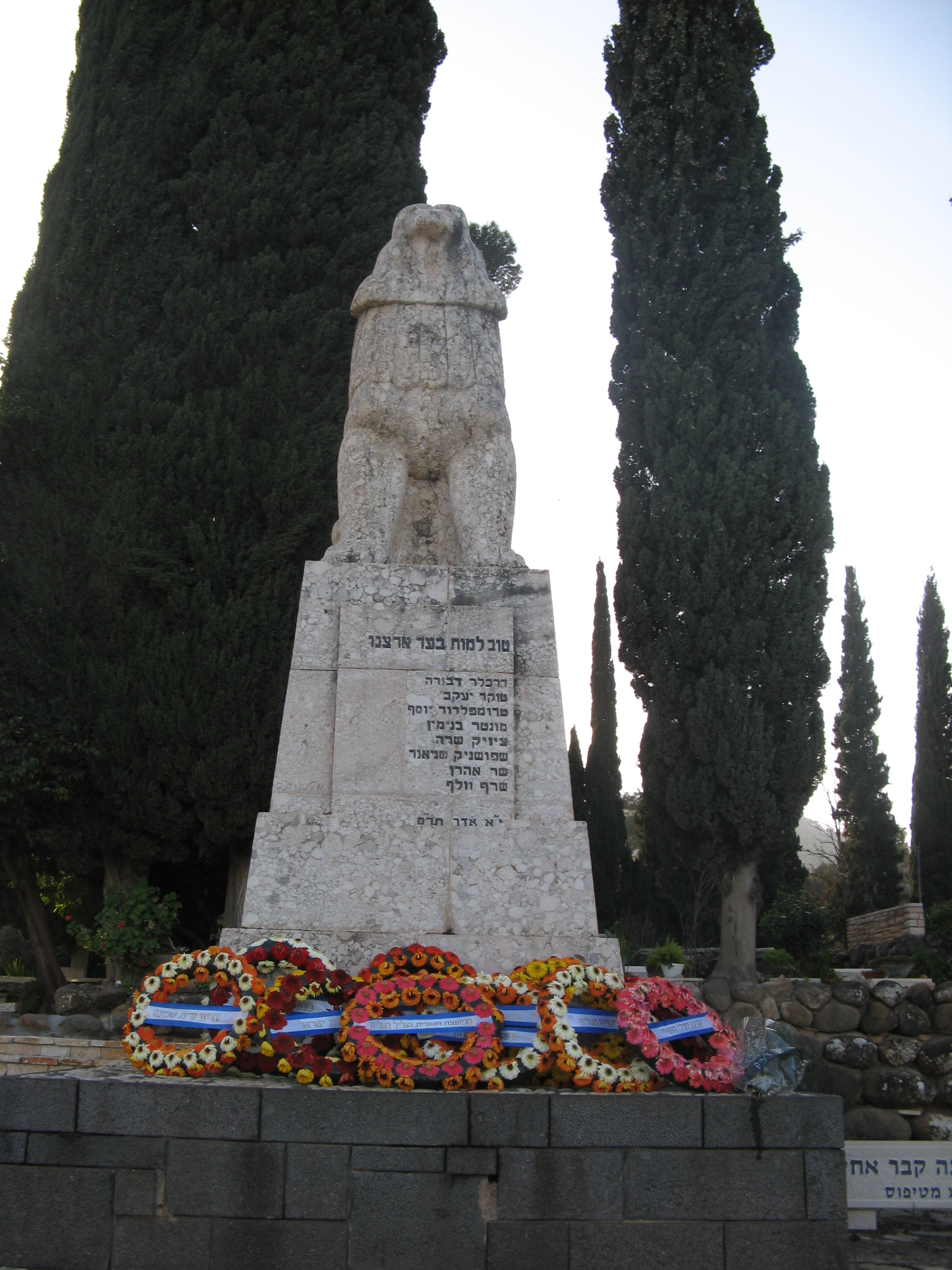 Tel Hai monument on the day after the state memorial for the victims 2009